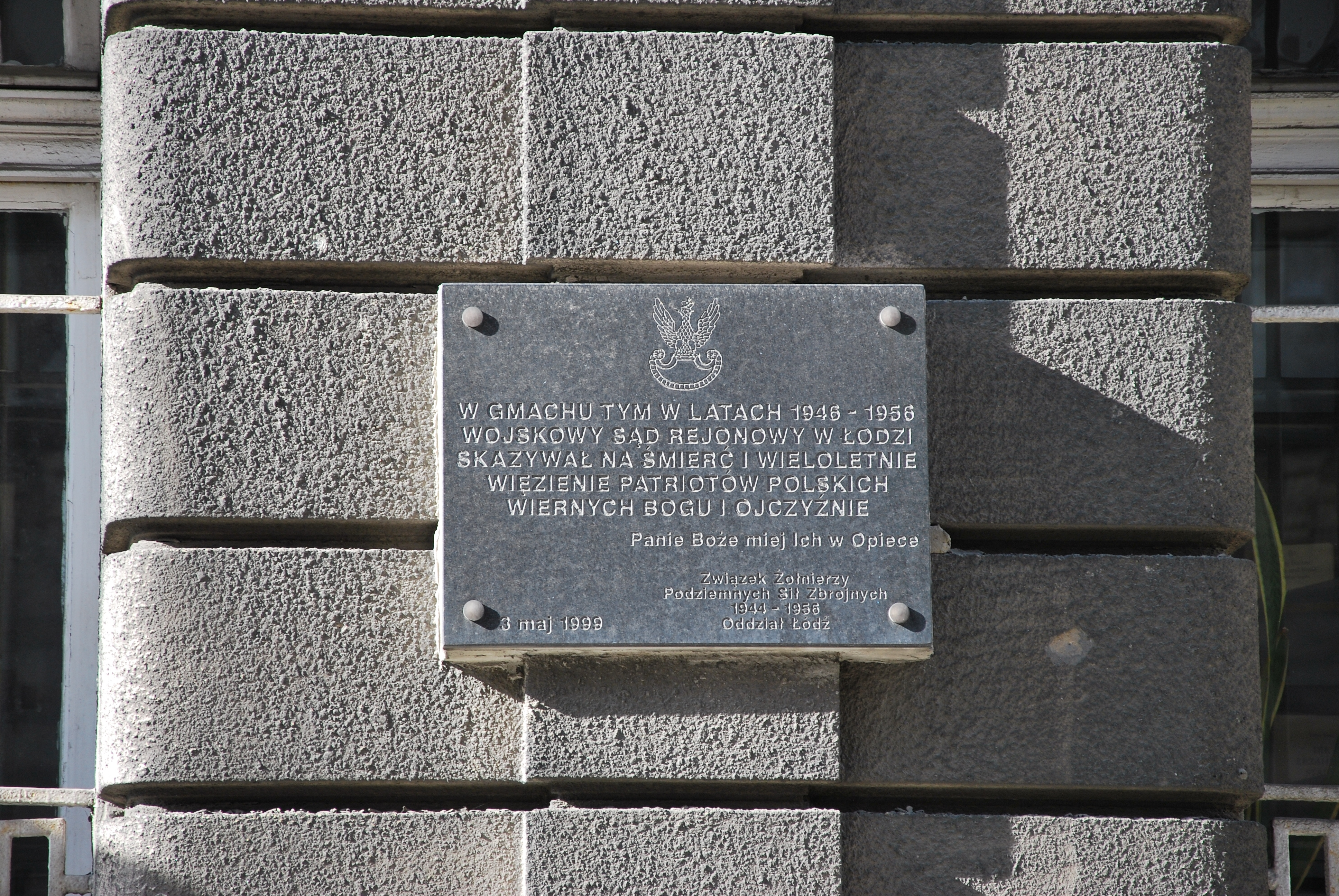 Plaque commemorating victims of communism, Łódź Moniuszki Street